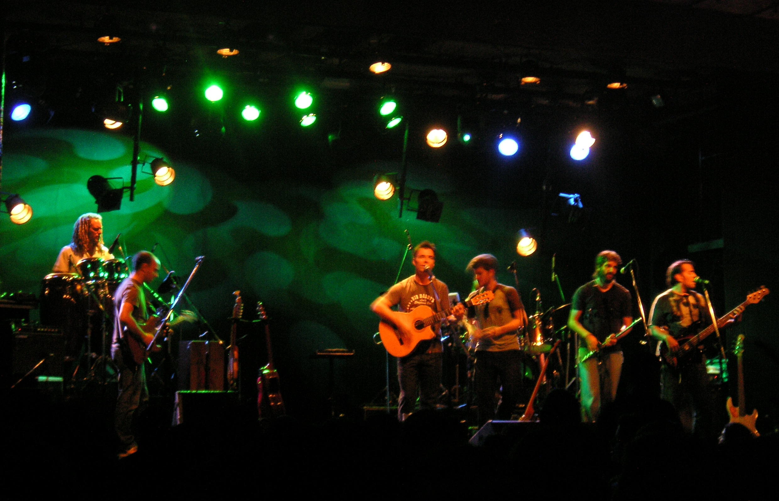 a concert of Kevin Johansen in San Telmo at La Transtienda Club